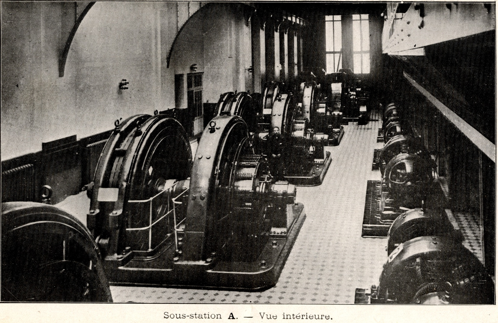 Archive centrale électrique